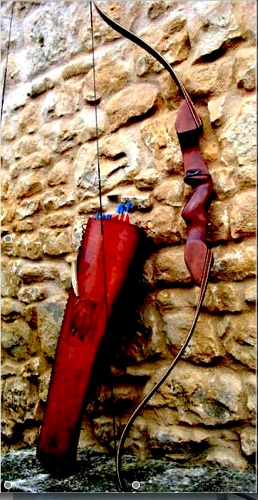 recurved hunting bow with quiver